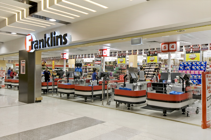 Village Plaza Supermarket